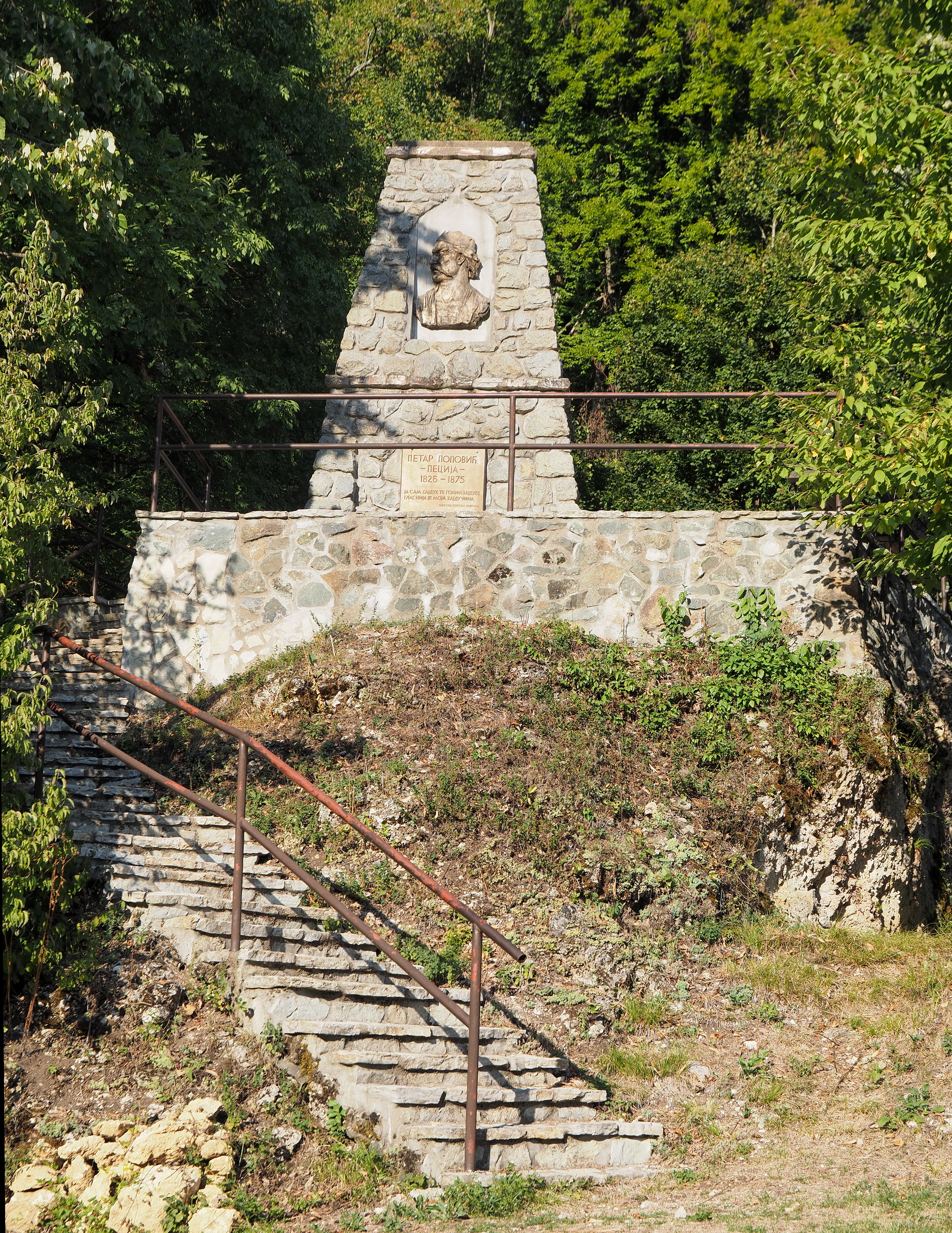 Monument to hajduk Pecija, Monastery Moštanica, Kozarska Dubica, Republika Srpska. Српски (ћирилица): Споменик хајдуку Петру Пецији на гробљу код Манастира Моштаница, Козарска Дубица, Република Српска This photograph was taken with a Olympus E-M1.